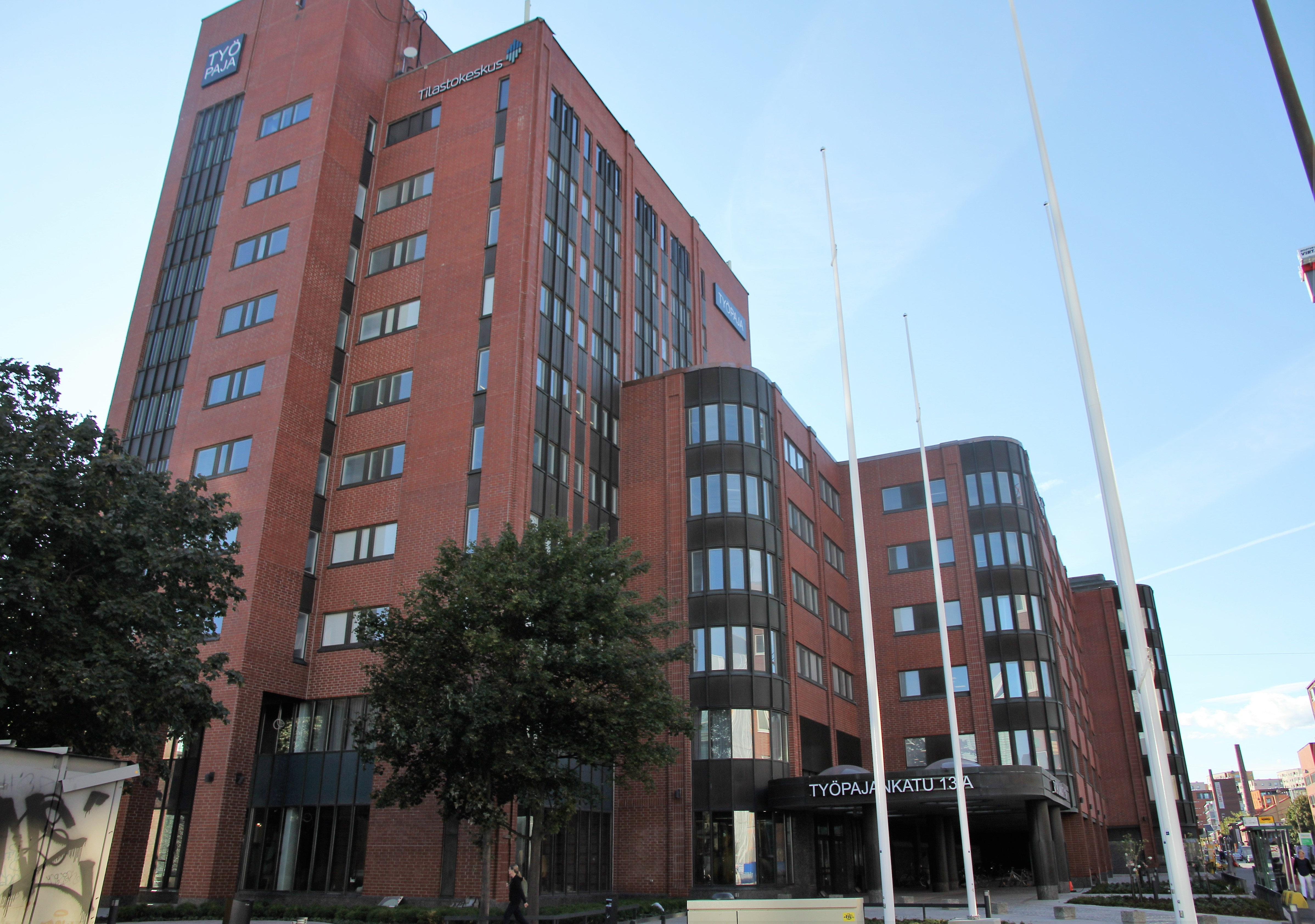 Main building of Statistics Finland, in Kalasatama, Helsinki. Address: Työpajankatu 13, Helsinki.